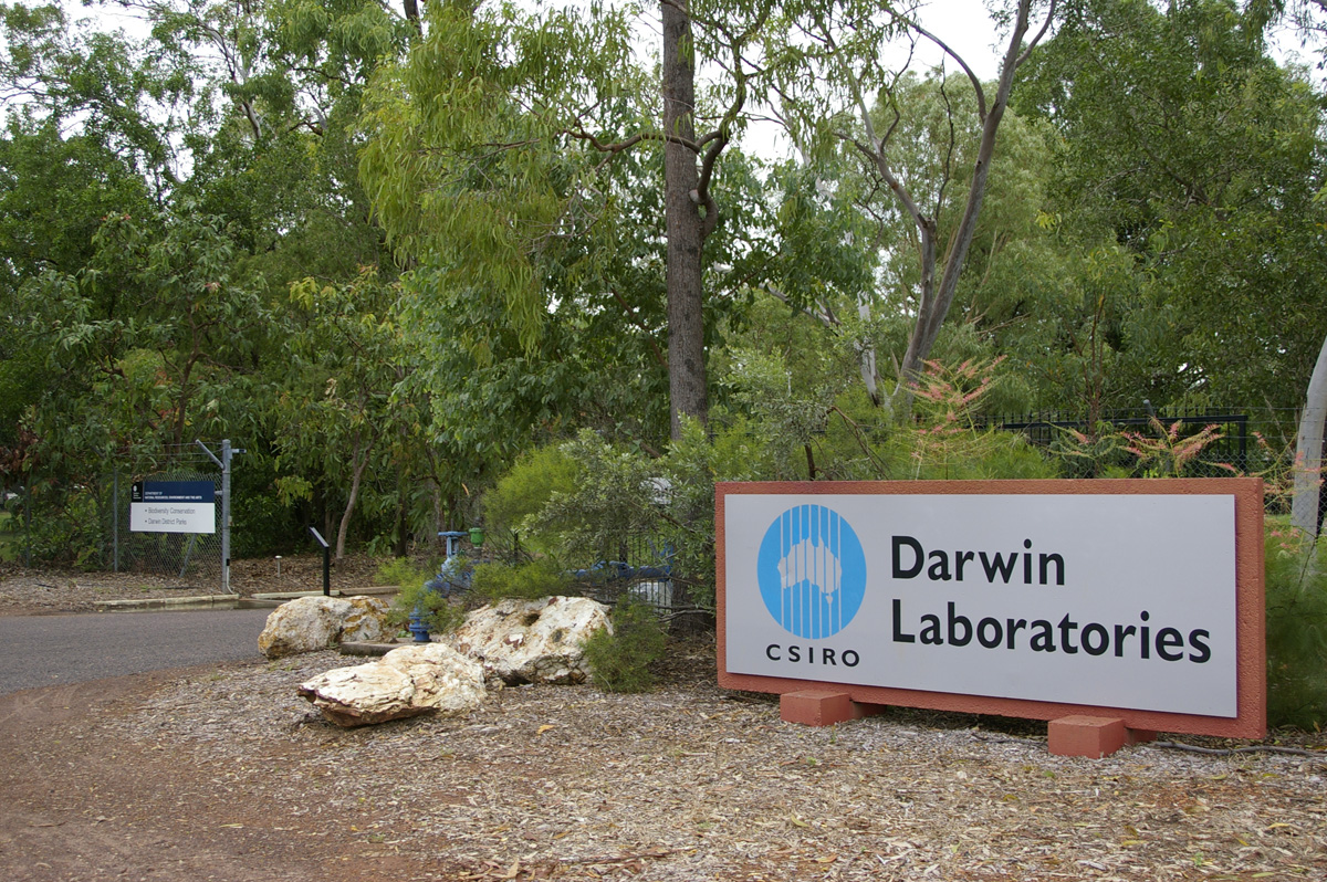 Commonwealth Scientific and Industrial Research Organisation Darwin located in the Suburb of Berrimah.